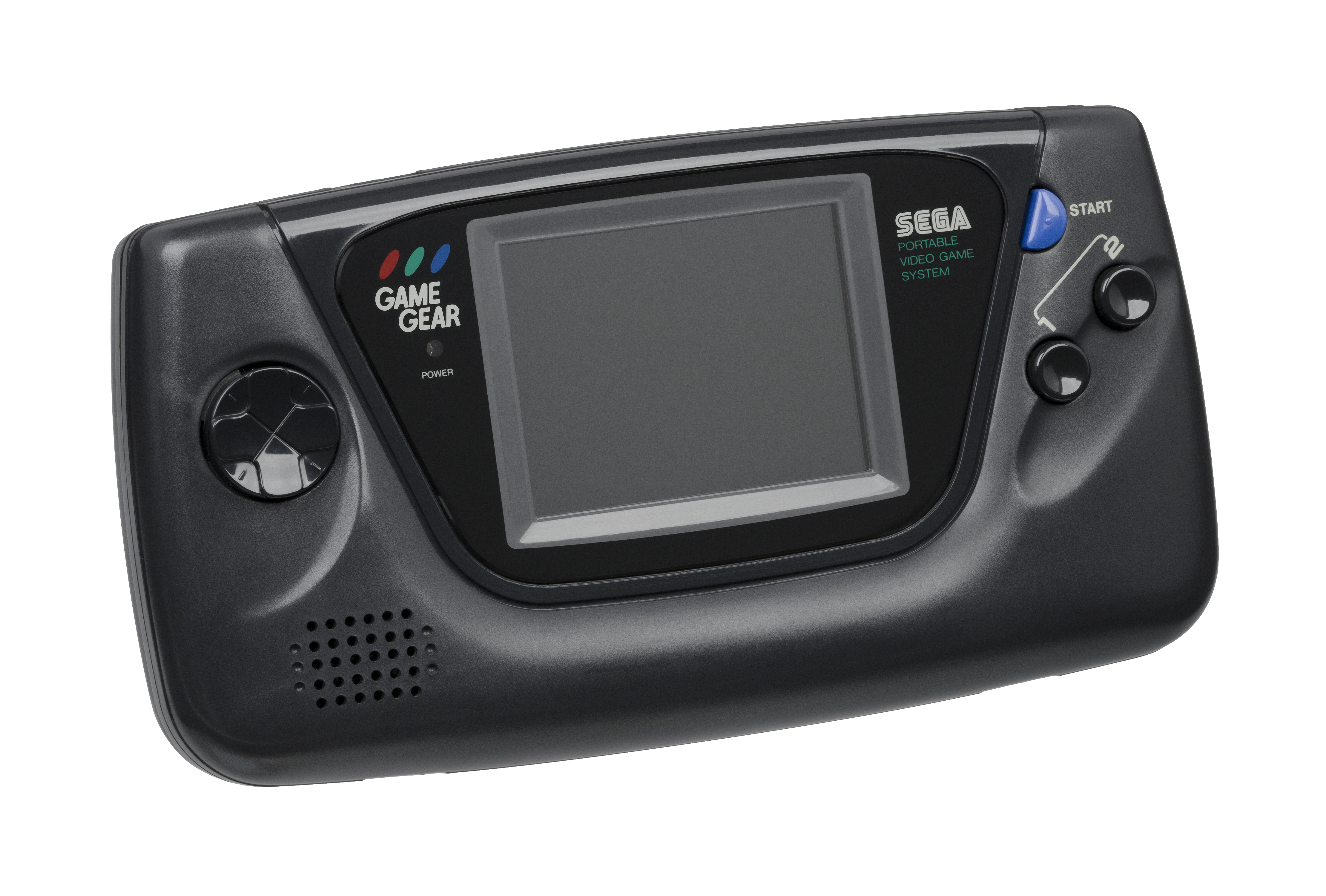 The Game Gear, a handheld video game system created by Sega and first released in 1990.